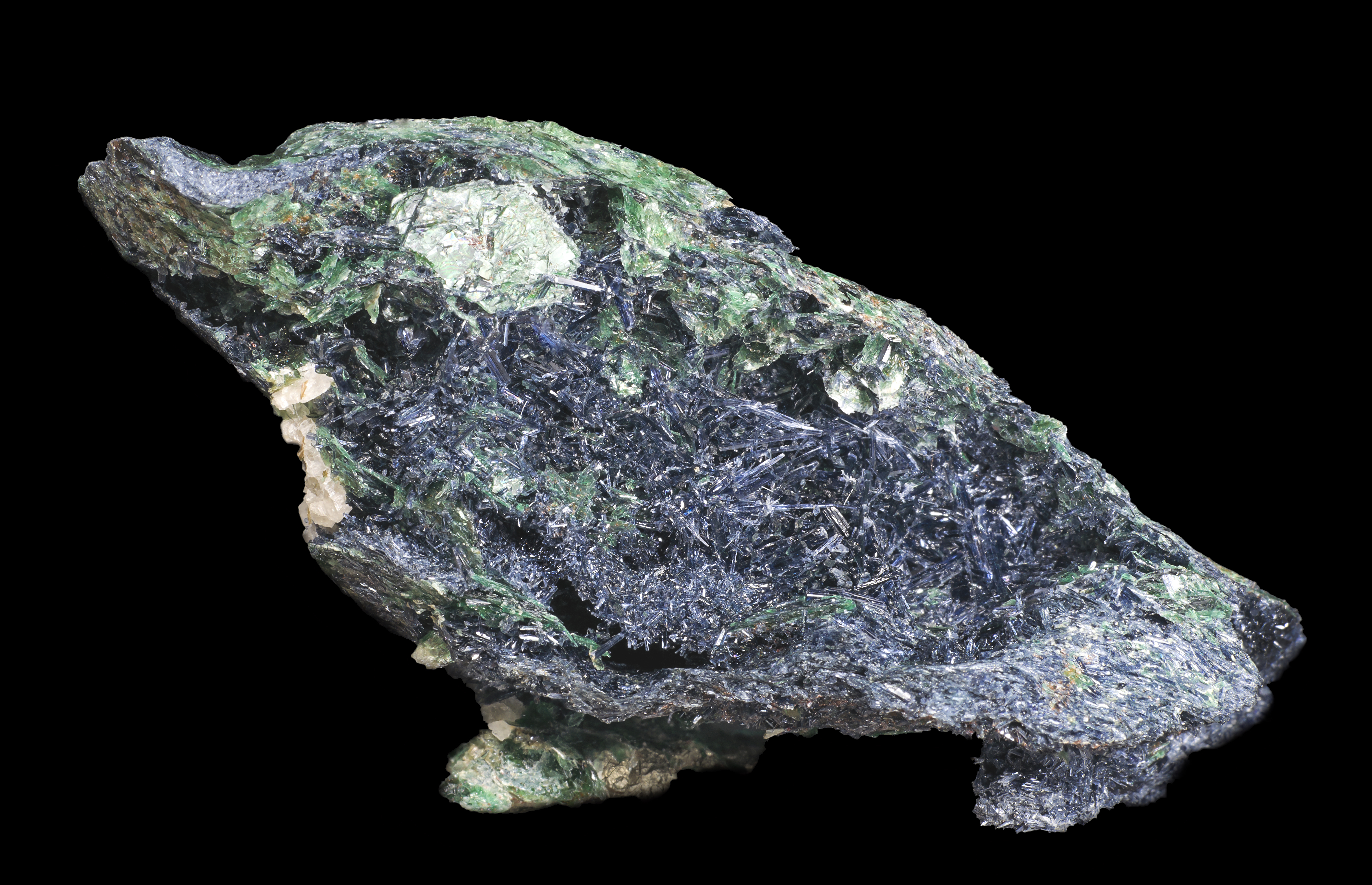 Glaucophane and Fuchsite (Var. of Muscovite) Locality : Groix Island, Groix, Morbihan, Brittany, France Size 6.5 x 5.2 x 3.6 cm